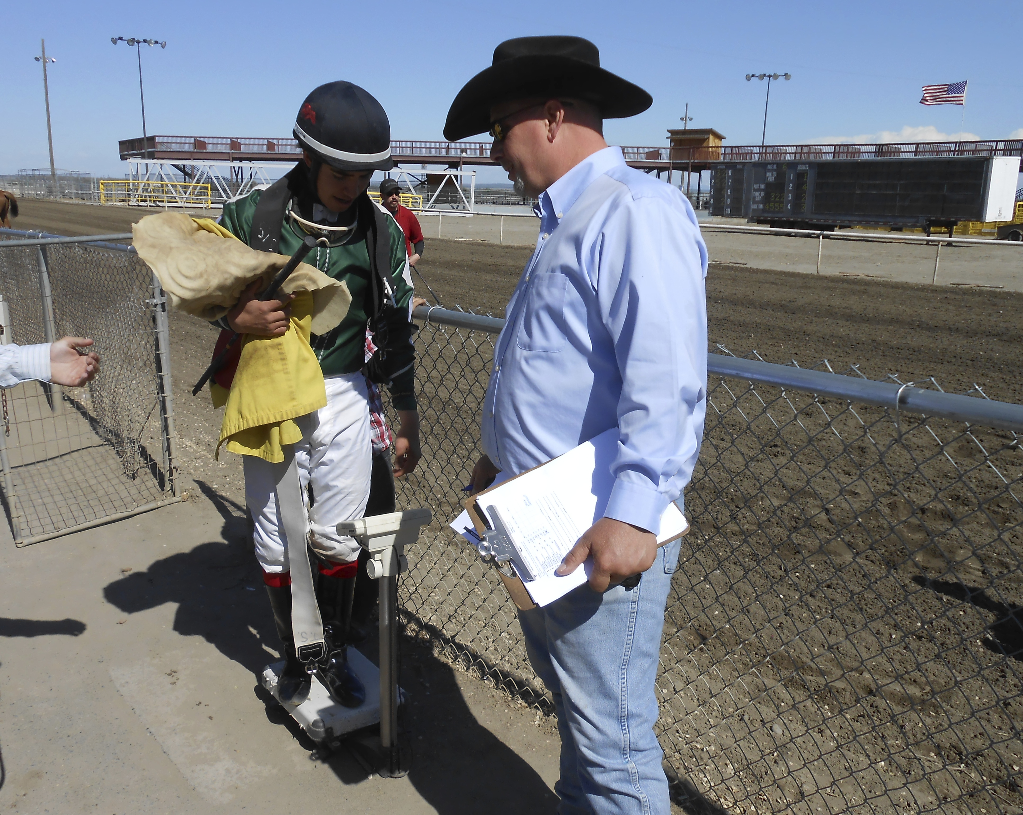 Horse racing April 2014 at Sun Downs, Kennewick, Washington. Jockey being weighed post-race, holding equipment